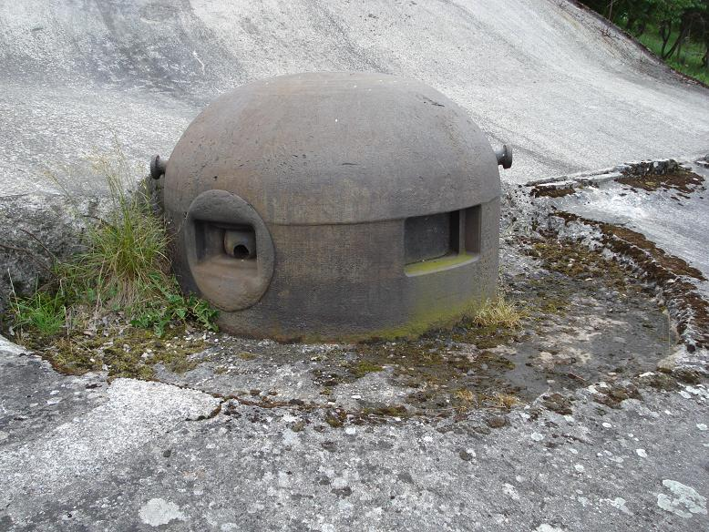 A-type cloche partially modified in B-type, Lesser Ouvrage Einseling (Maginot Line)